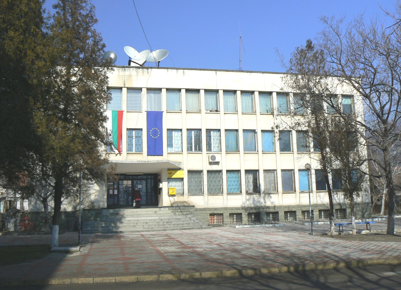 Building of Shivachevo municipality; Shivachevo, Bulgaria